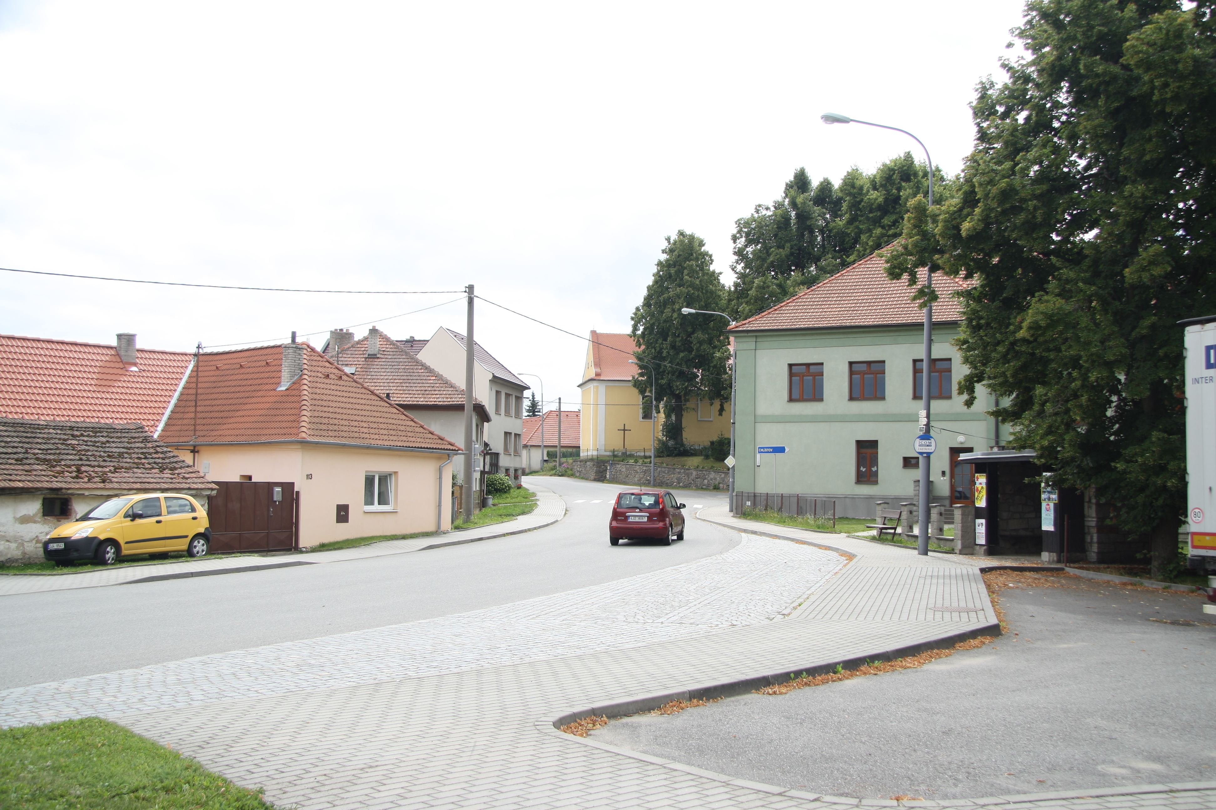 Center of Rokytnice nad Rokytnou, Třebíč District.